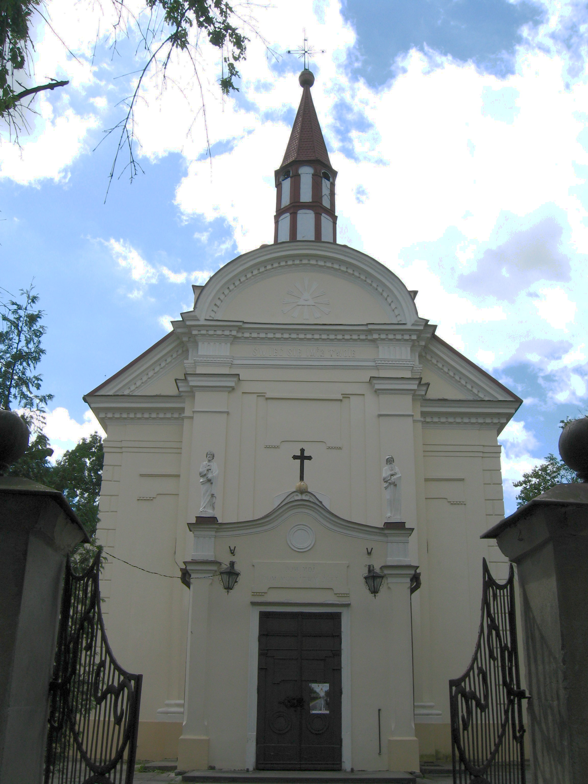 Roman-catholic church of Holy Trinity from the 2nd half of 18th century